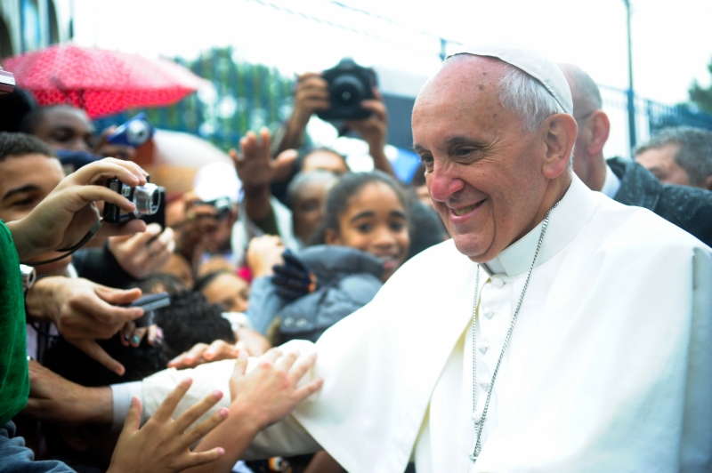 Pope Francis at Varginha